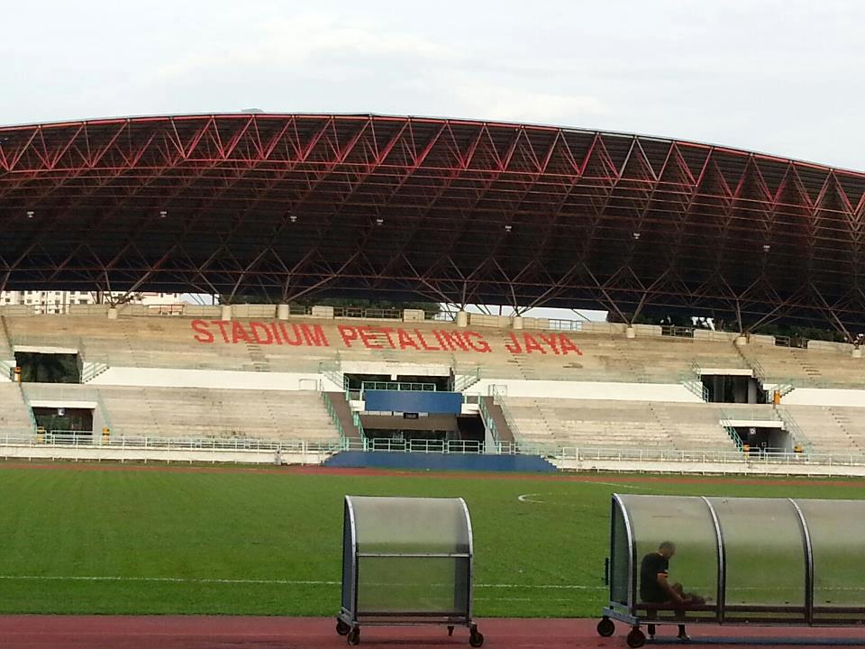 Stadium MBPJ di Kelana Jaya, Malaysia.